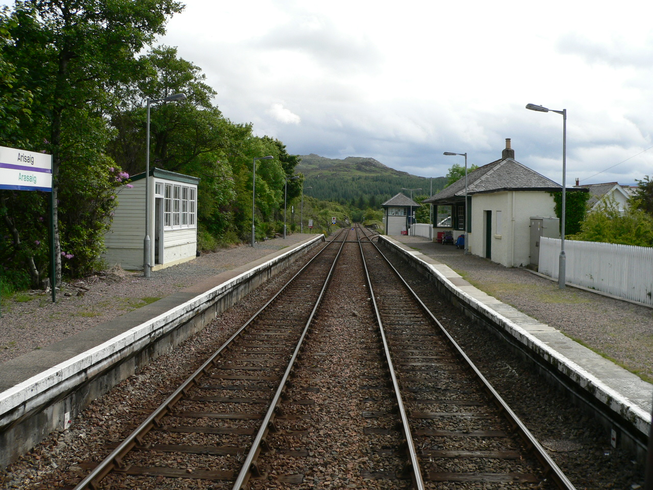 Arisaig railway station on the West Highland Line, seen from the last carriage of The Jacobite steam service from Fort William to Mallaig, hauled by LNER B1 4-6-0 locomotive 61264. Arisaig is the most westerly station on the British mainline railway network.